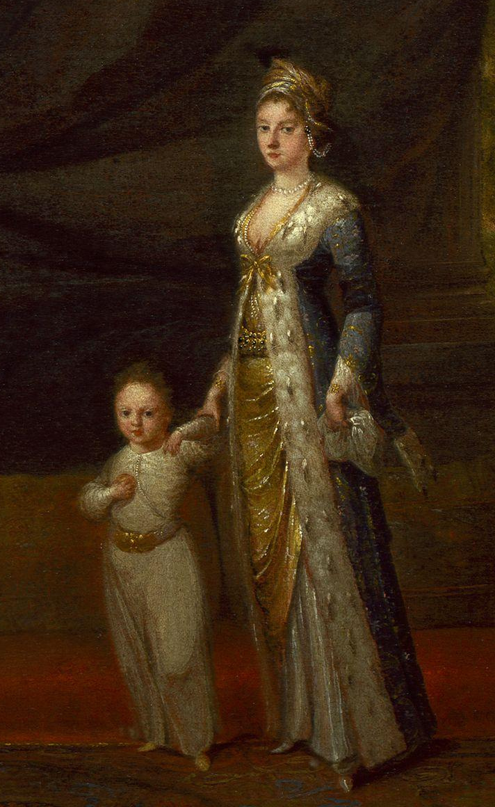 Detail of Lady Mary Wortley Montagu with her son, Edward Wortley Montagu, and attendants.